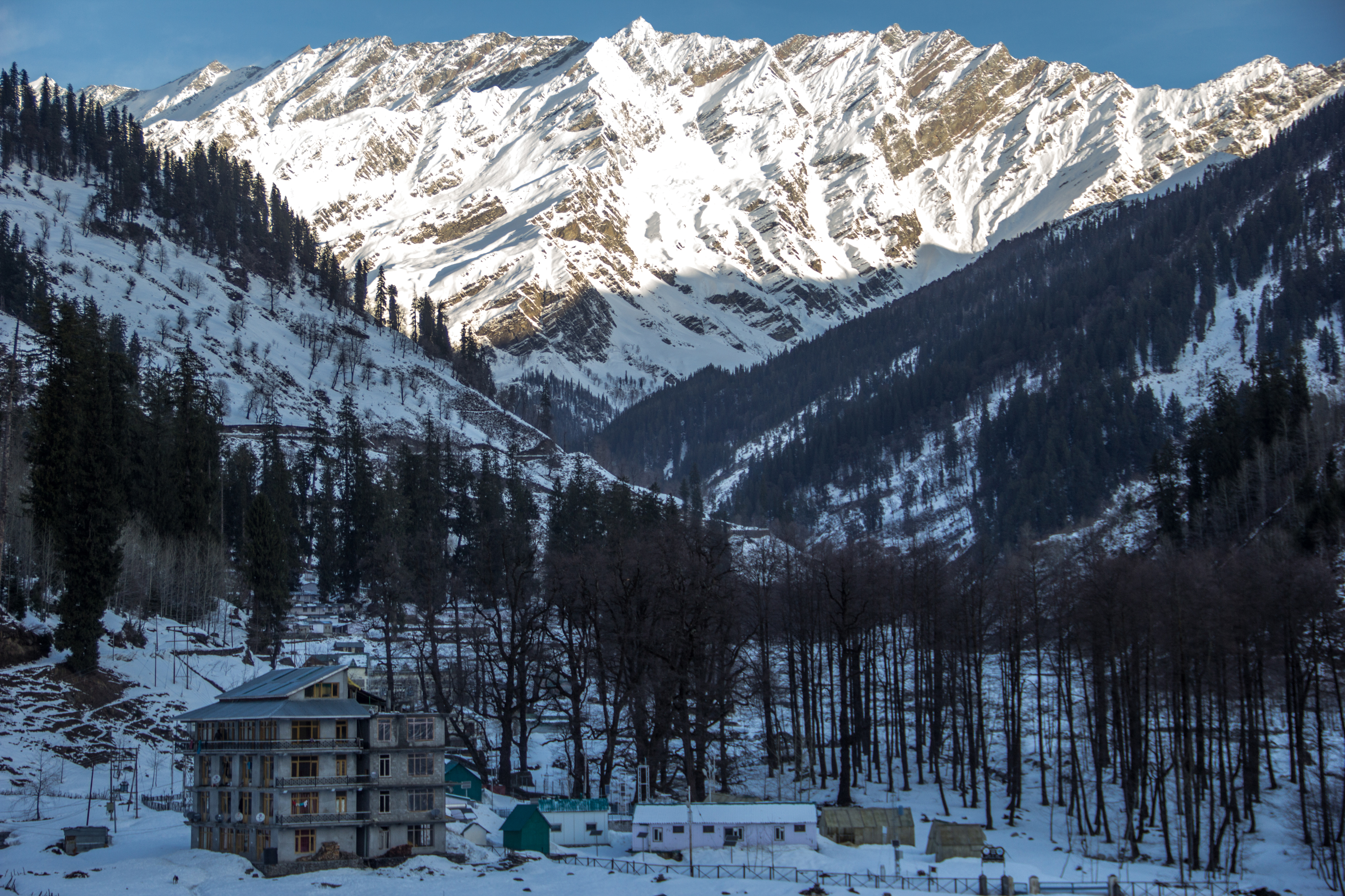 A morning picutre taken on Manali, Himachal Pradesh